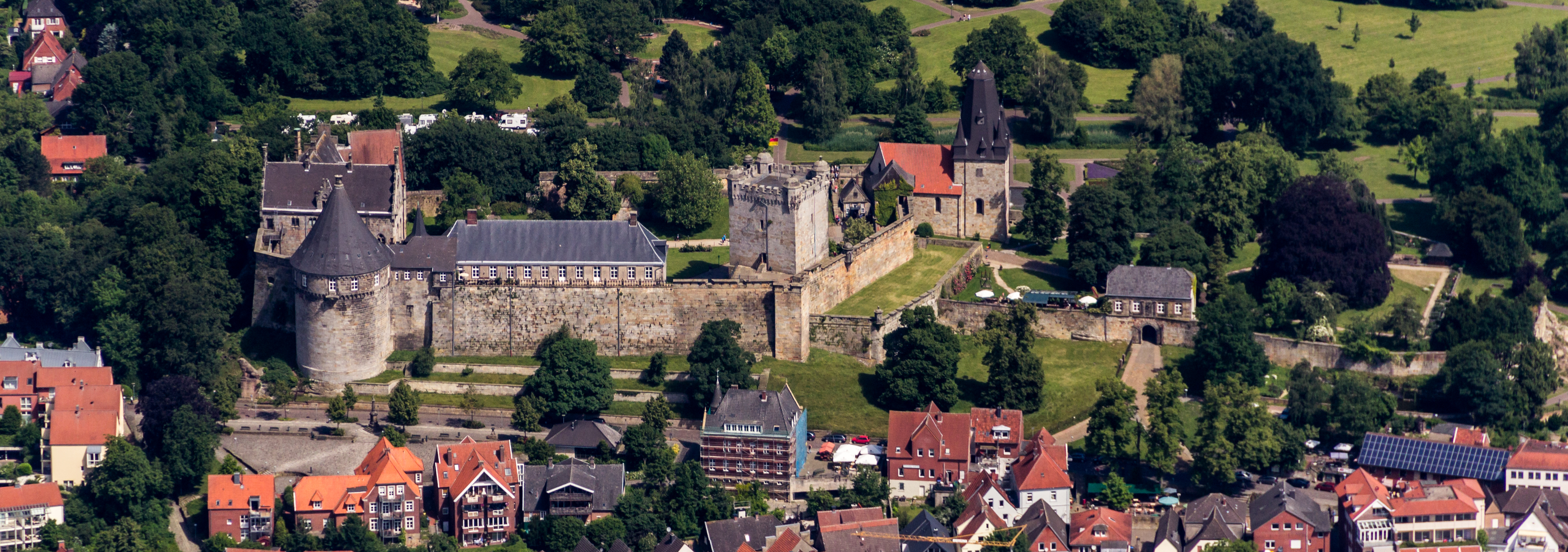 Bentheim Castle, Bad Bentheim, Lower Saxony, Germany